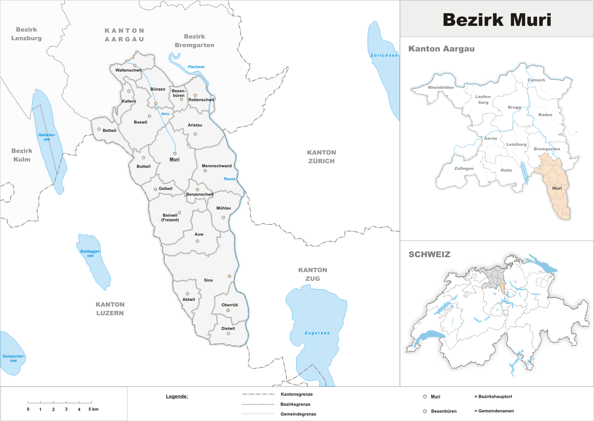 Municipalities in the district of Muri to 2010